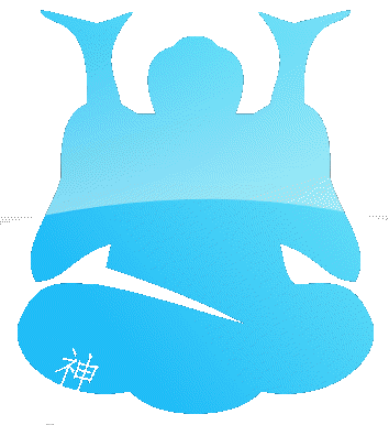 The symbol of the Shen programming language